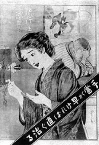 1919 FluVictims Japanese poster. Japanese text: "If treated quickly it gets better right away."